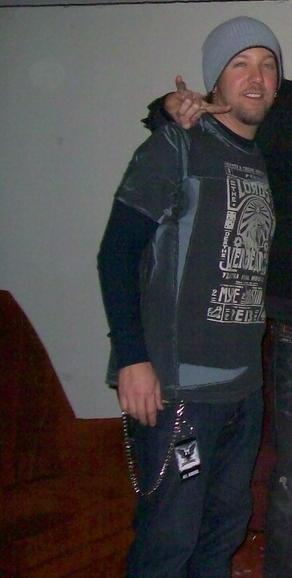 Stopped by the Kampout For Kids Concert and hooked up with Alter Bridge. Have not seen these guys since they ditched Scott Stapp.